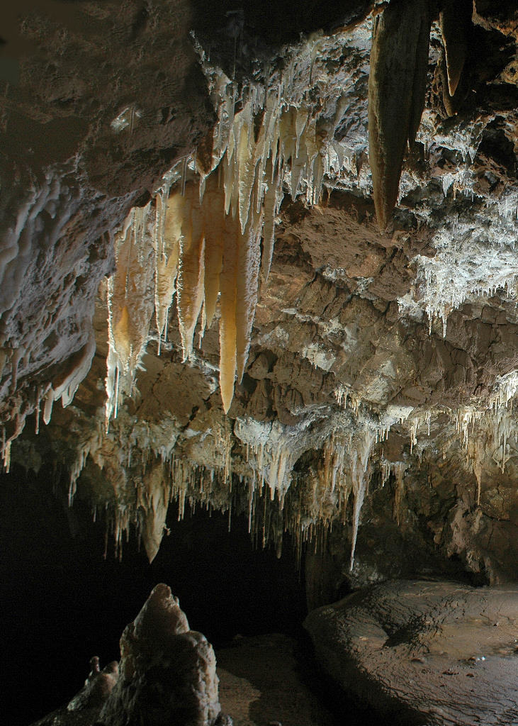 Stalactites and stalagmites in the Jungle Room, part of the commercial tour in California Caverns.